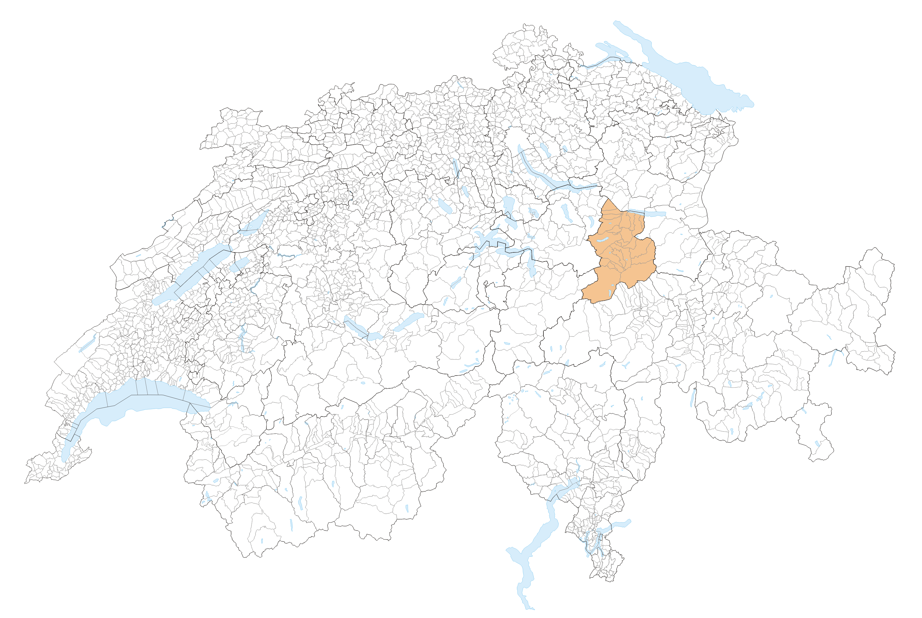 Kanton Glarus